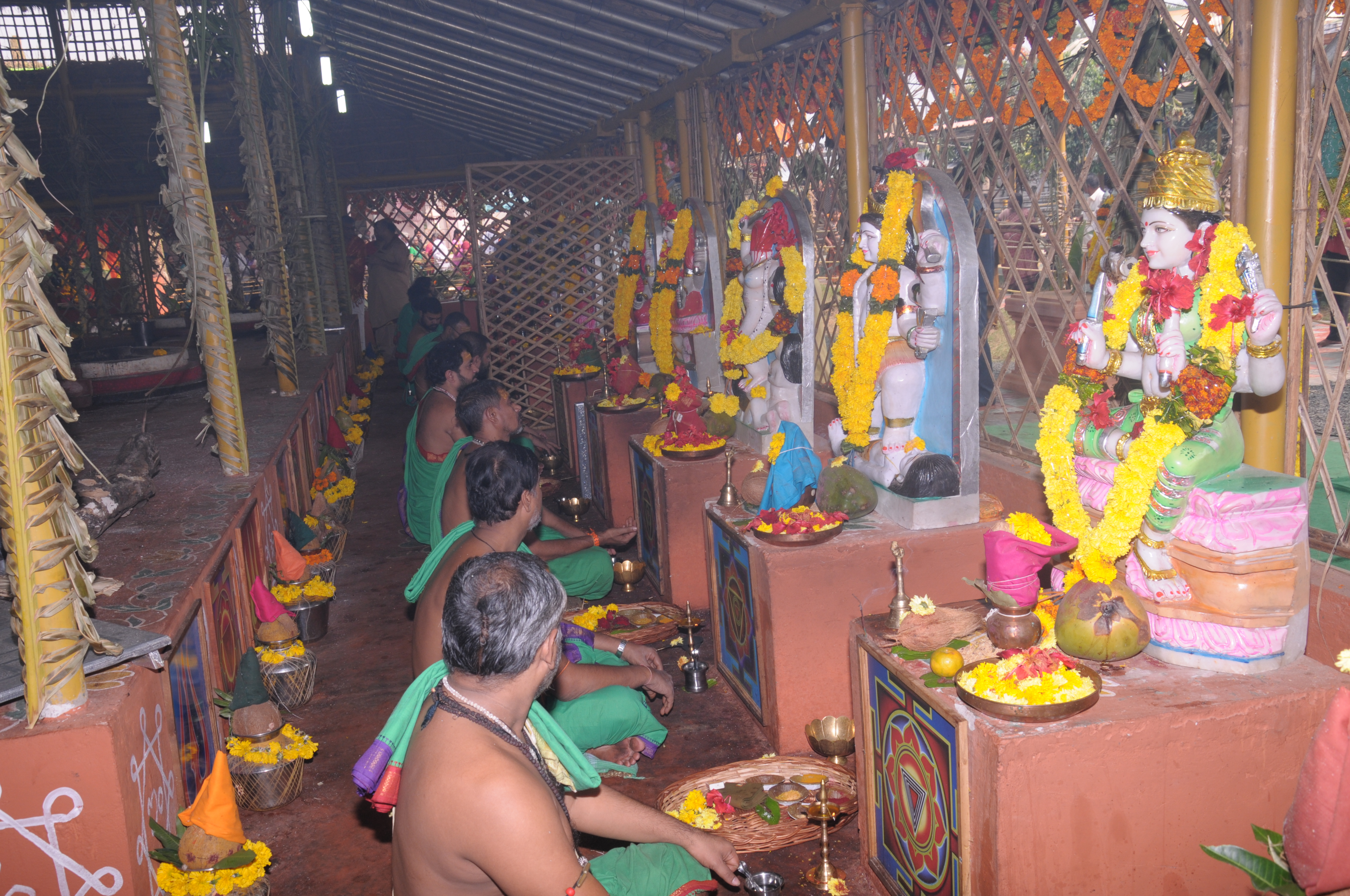 sapta matruka statues at ahoratram